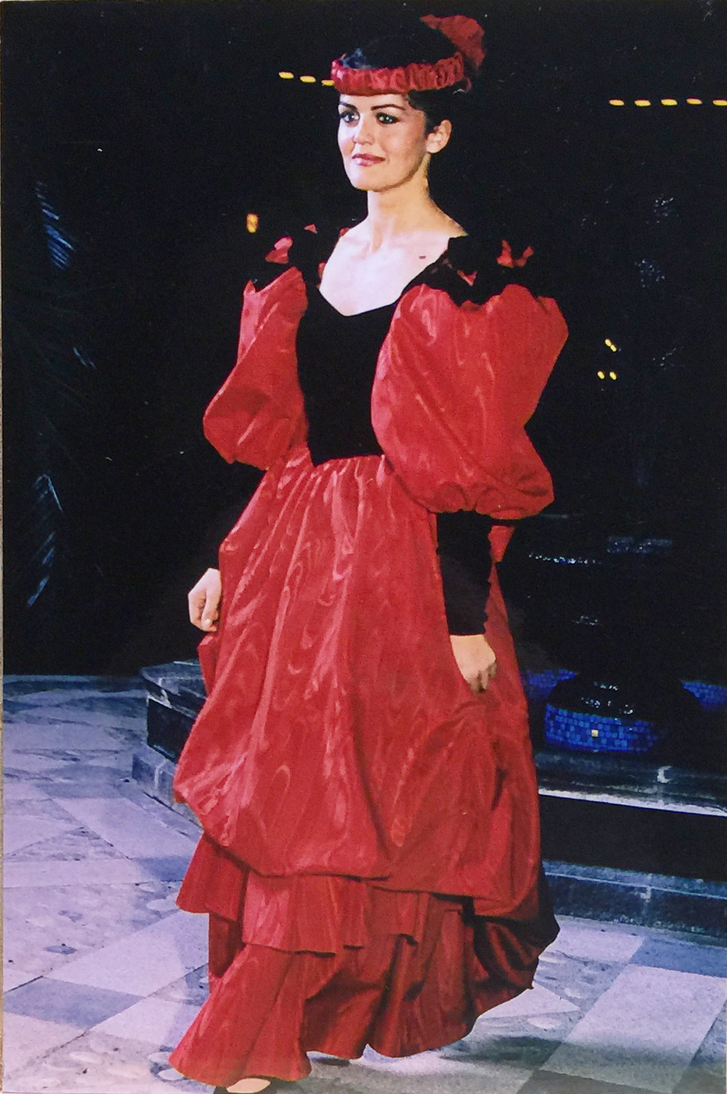 Dress designed by the Norwegian designer Lise Skjåk Bræk